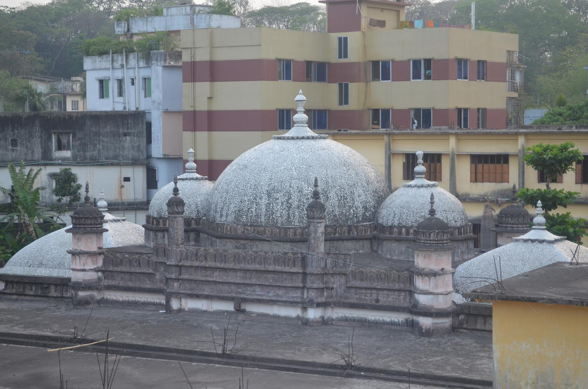 Kadam mubarak mosque, Andorkilla, Chittagong.